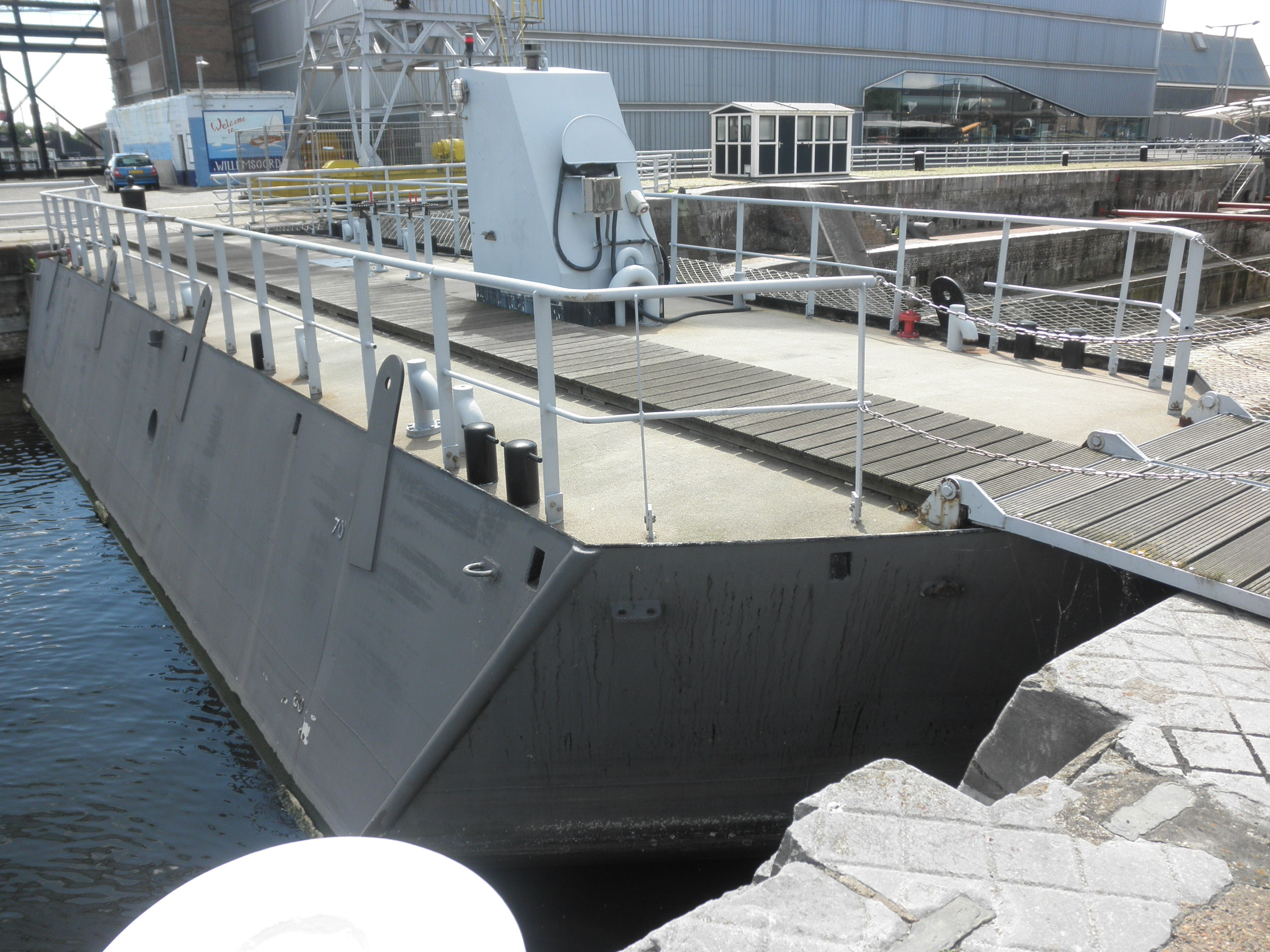 Bateau-porte of the old dry dock at the old Dutch navy yard Willemsoord, Den Helder, the Netherlands